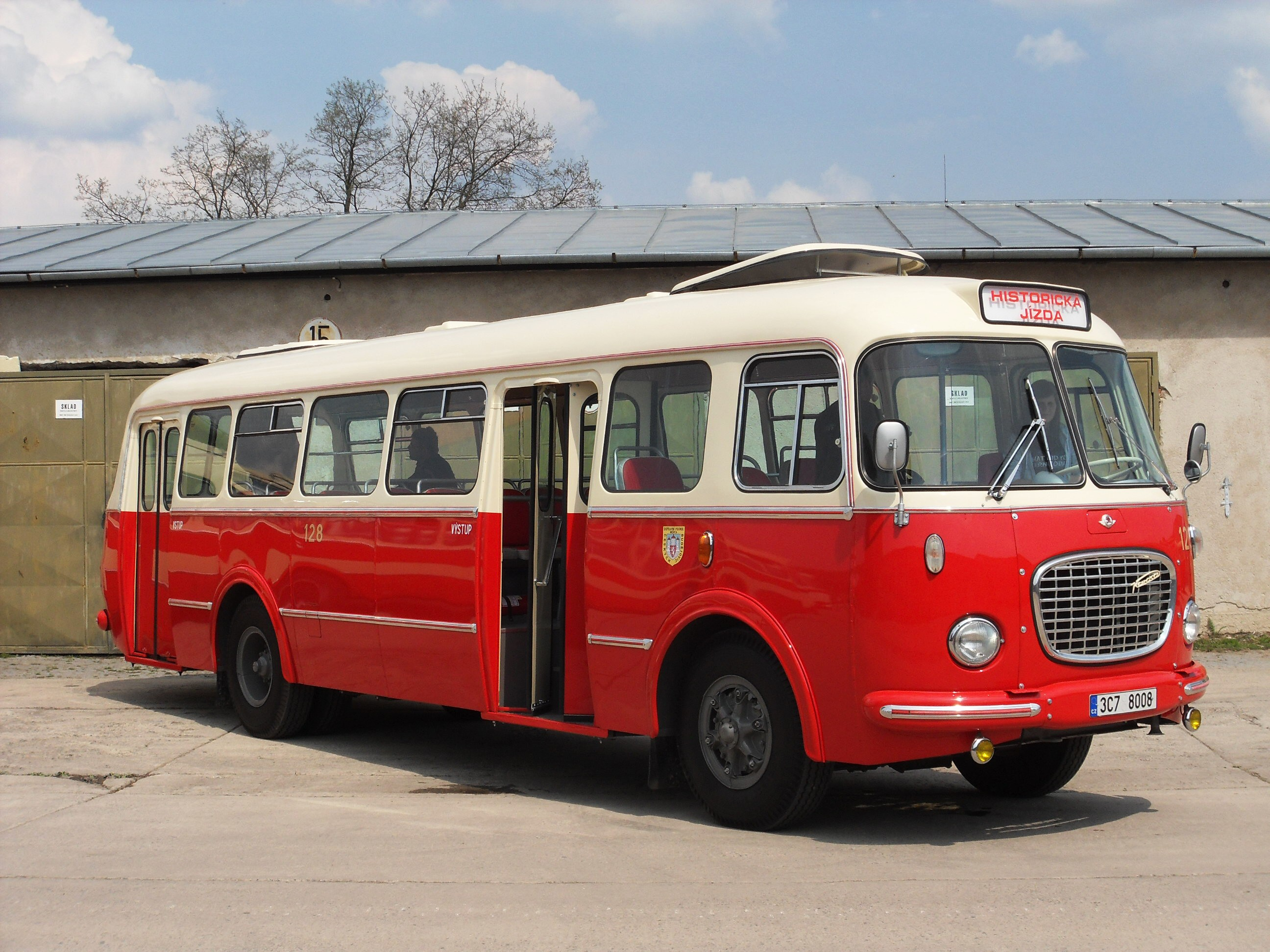 Historical bus Škoda 706 RTO MEX of Dopravní podnik města České Budějovice, depository of Technical Museum in Brno, Czech Republic